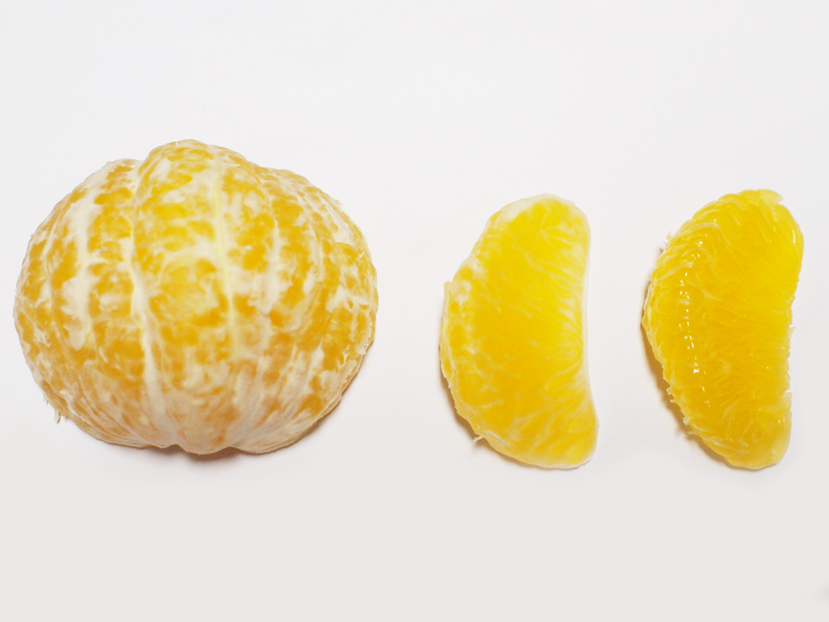 The flesh of hassaku fruit.